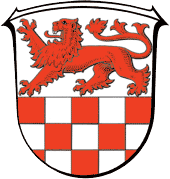 Coat of Arms of Cornberg